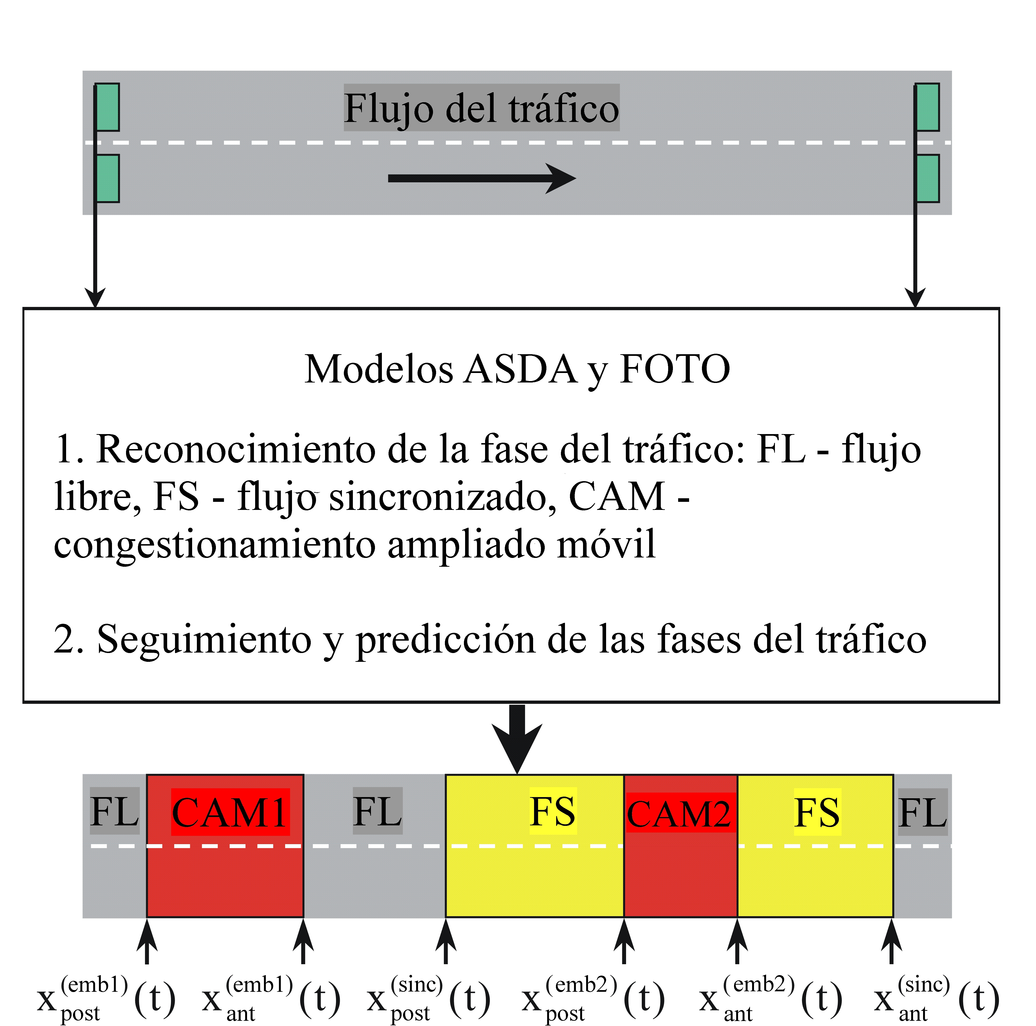 ASDA Model